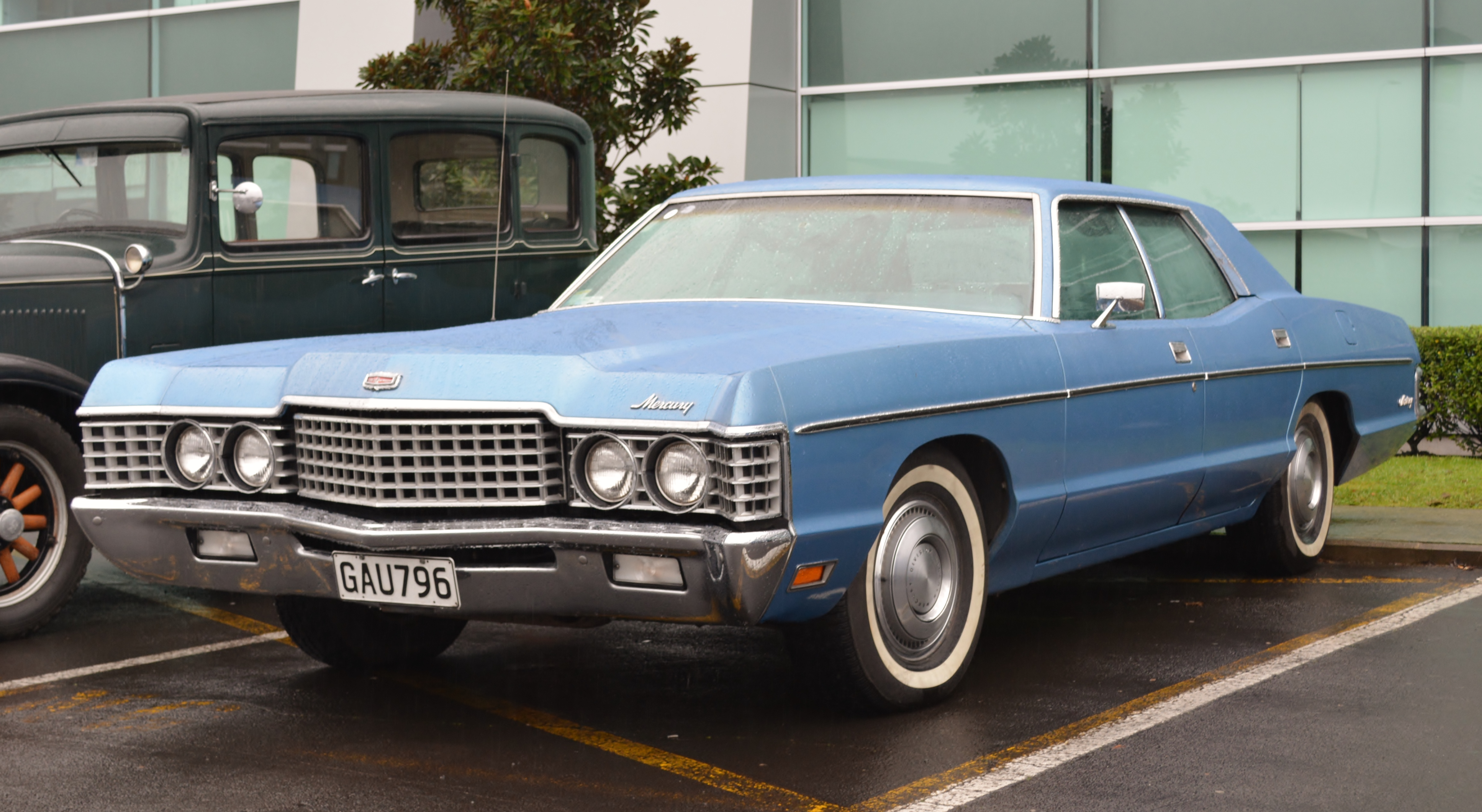 At Bellagio Manakau,South Auckland.New Zealand